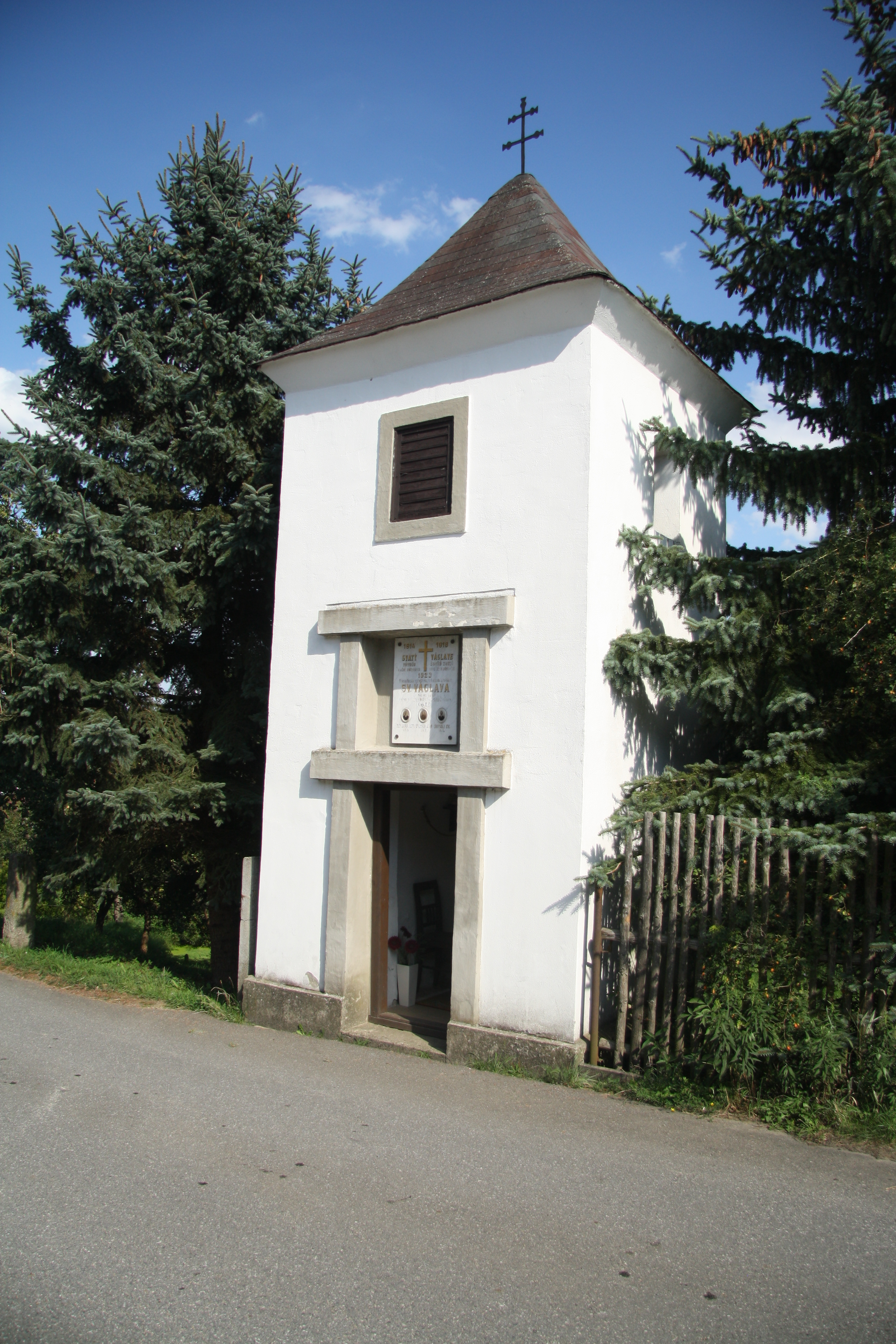 Chapel in Nové Sady, Žďár nad Sázavou District.